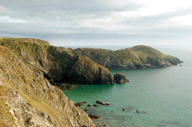 Circular walk from Solva to St Elvis and Dinas Fawr (25) This series of photos portrays a 2-mile circular walk east and south of Solva, Pembrokeshire. Initially, the walk climbs out of the valley of the River Solva onto The Gribbin, a knife-edge ridge between the glacial valleys of Solva and Gwadn. The walk then descends to a marshy area before climbing inland to farmland. Near St Elvis Farm, the walk passes a cromlech (a neolithic burial chamber) then heads to the coastpath and turns west to follow the clifftop. After descending into Gwadn cove, the walk climbs to rejoin The Gribbin before descending into Solva. The route can be followed on OS 1:50000 sheet 157 or on OS 'Explorer' 1:25000 sheet OL35. The walk follows the coastpath along the clifftop west towards Solva. There are several gates along this stretch and the path is well signposted. However, walkers should be cautious as the cliff edge is not fenced off and, in places, is precipitous. This photo is looking back (eastward) along the coastpath to Dinas Fawr headland. There is a public right of way out to the tip of the headland but it is a precipitous path and suitable only for sure-footed walkers. Previous [1] Next [2]